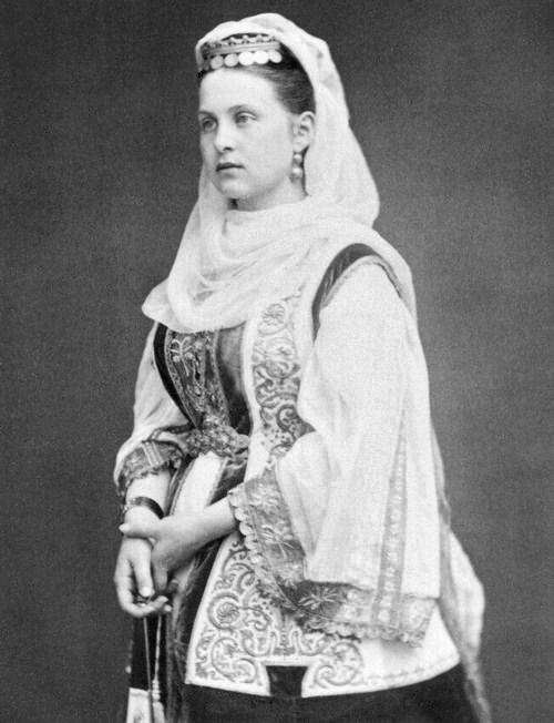 Portrait of the young Queen Olga of Greece in a traditional Greek costume, circa 1870.